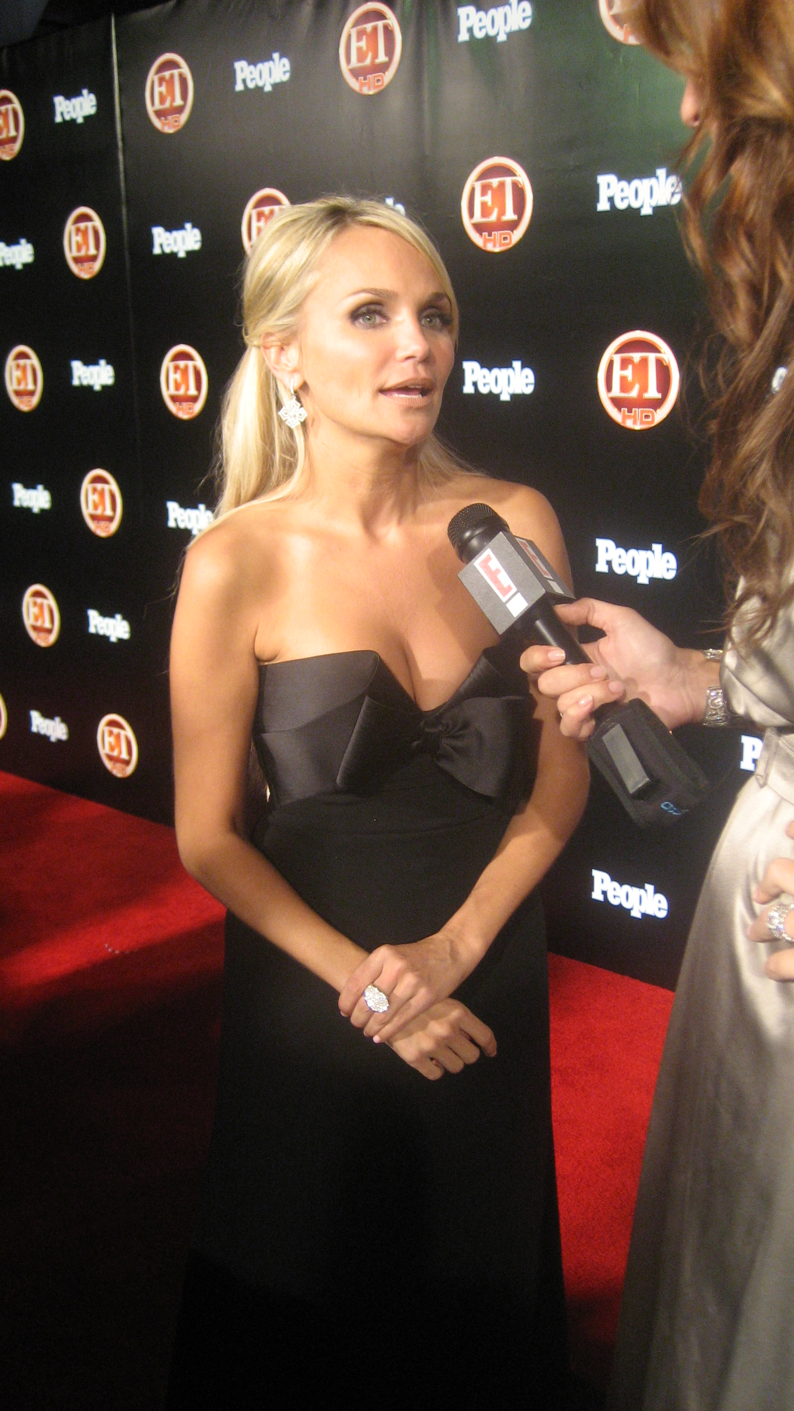 Kristin Chenoweth at the ET Post-Emmys Party, Walt Disney Concert Hall, Sept. 21, 2008.